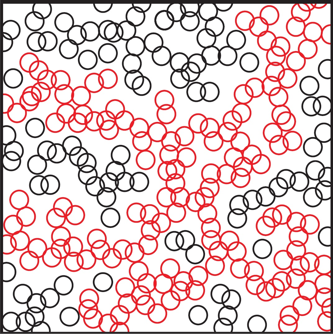 Continuum percolation with discs in 2 dimensions. The percolating cluster is shown in red